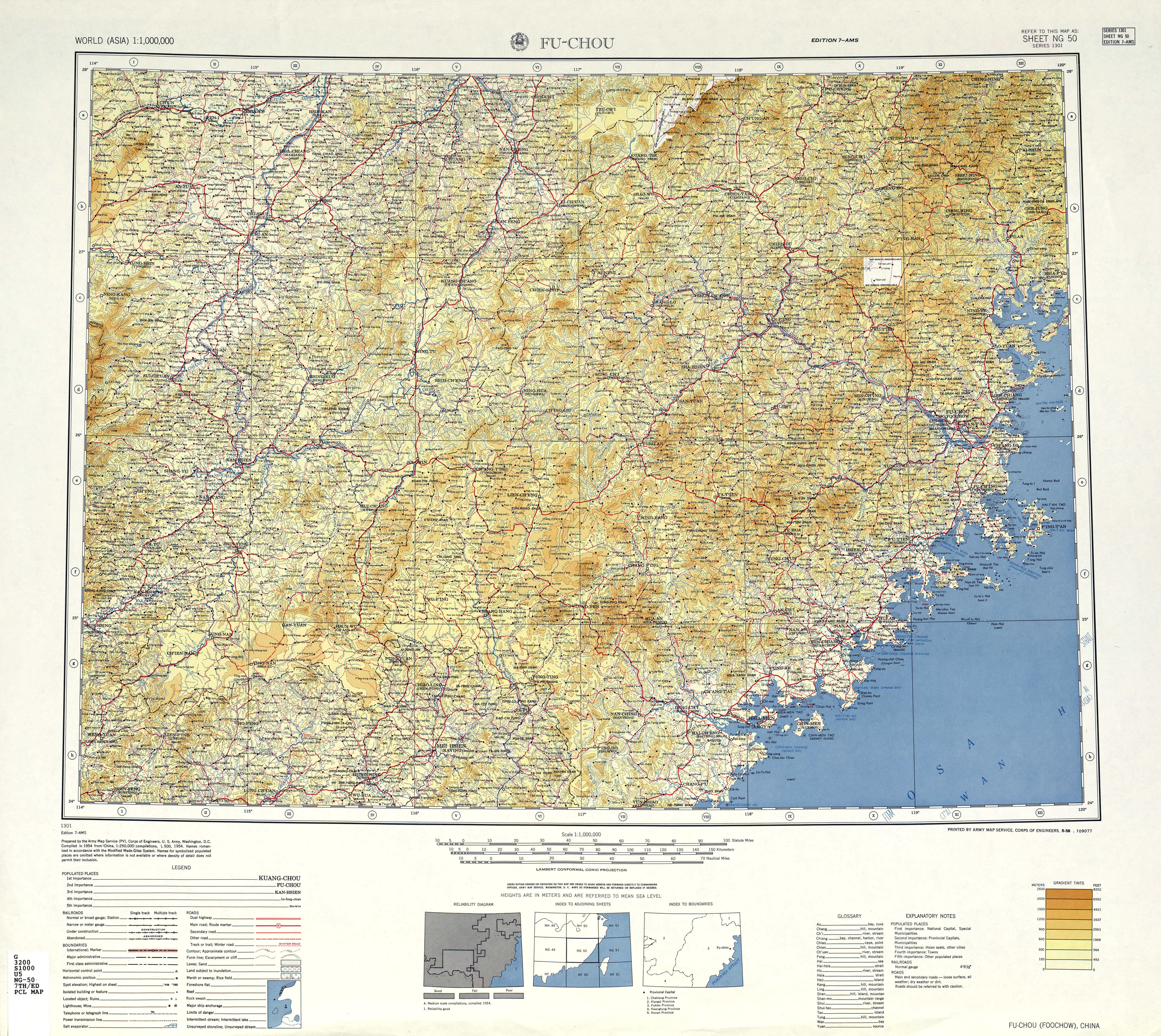 Map from the International Map of the World 1:1,000,000